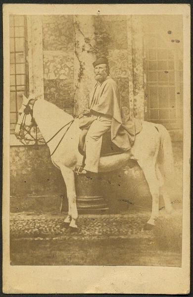 Giuseppe Garibaldi posing in the courtyard of the Palazzo Trecchi, riding the white horse borrowed from his friend and fellow soldier Giacomo Griziotti.